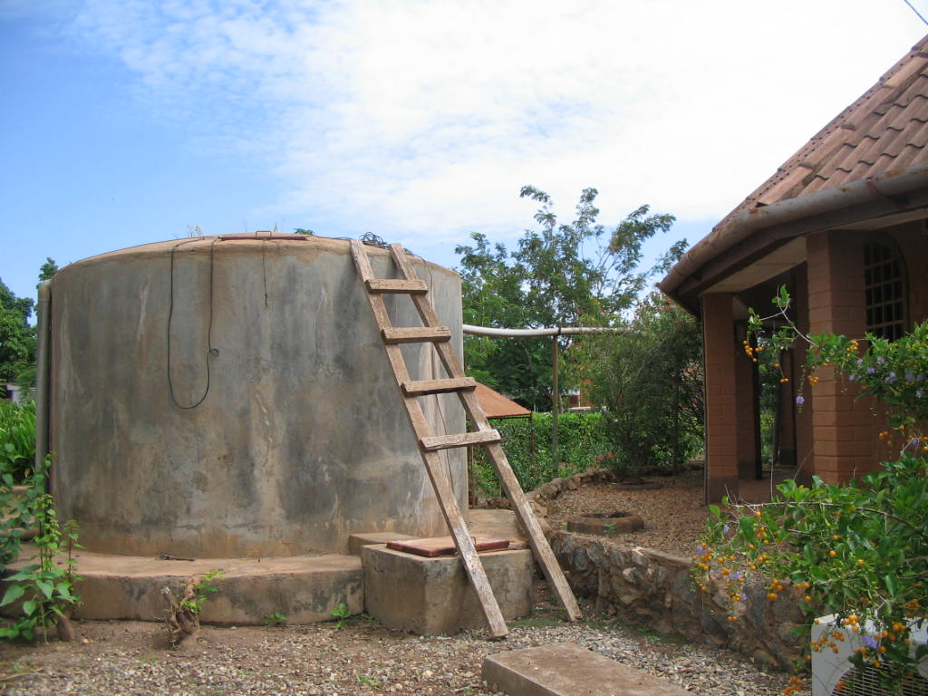 Photograph: E. Muench